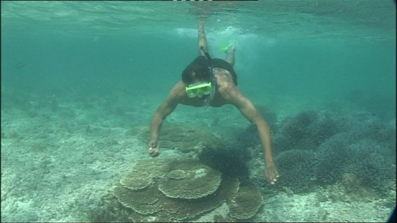 This is a photograph of Ernie Dingo diving at the Houtman Abrolhos during shooting for the Australian television show The Great Outdoors.